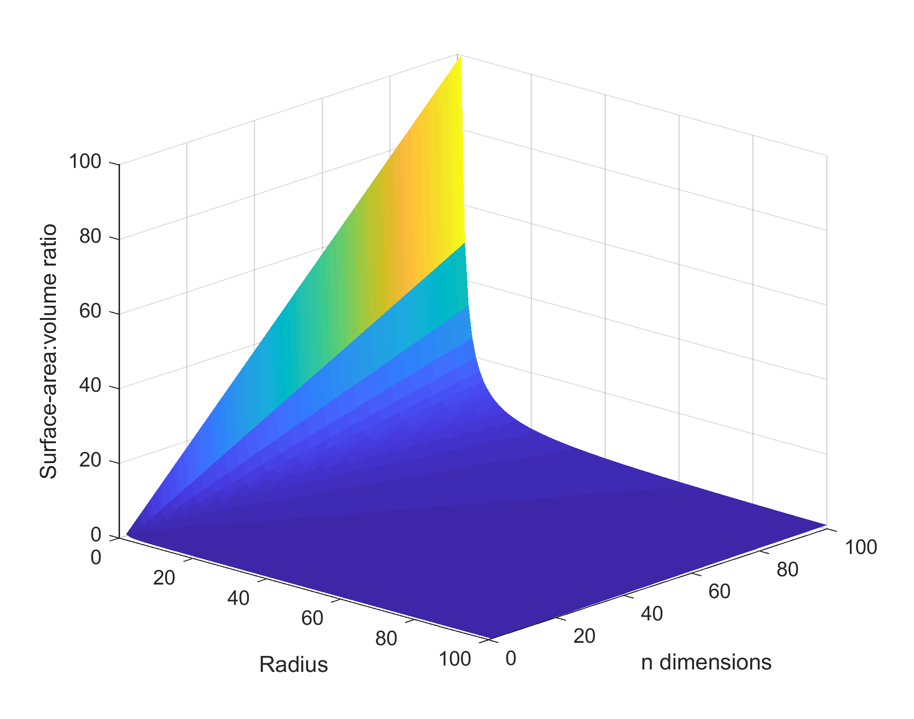 Plot of surface-are:volume (SA:V) for n-balls of varying dimensions (1-100) and radii of different lengths (1-100) showing the exponential scaling as a function of radius, and linear scaling as a function of number of dimensions.